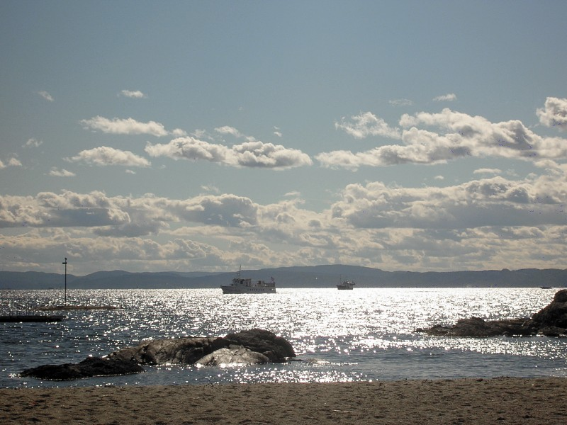 Huk, Oslo – view on sea